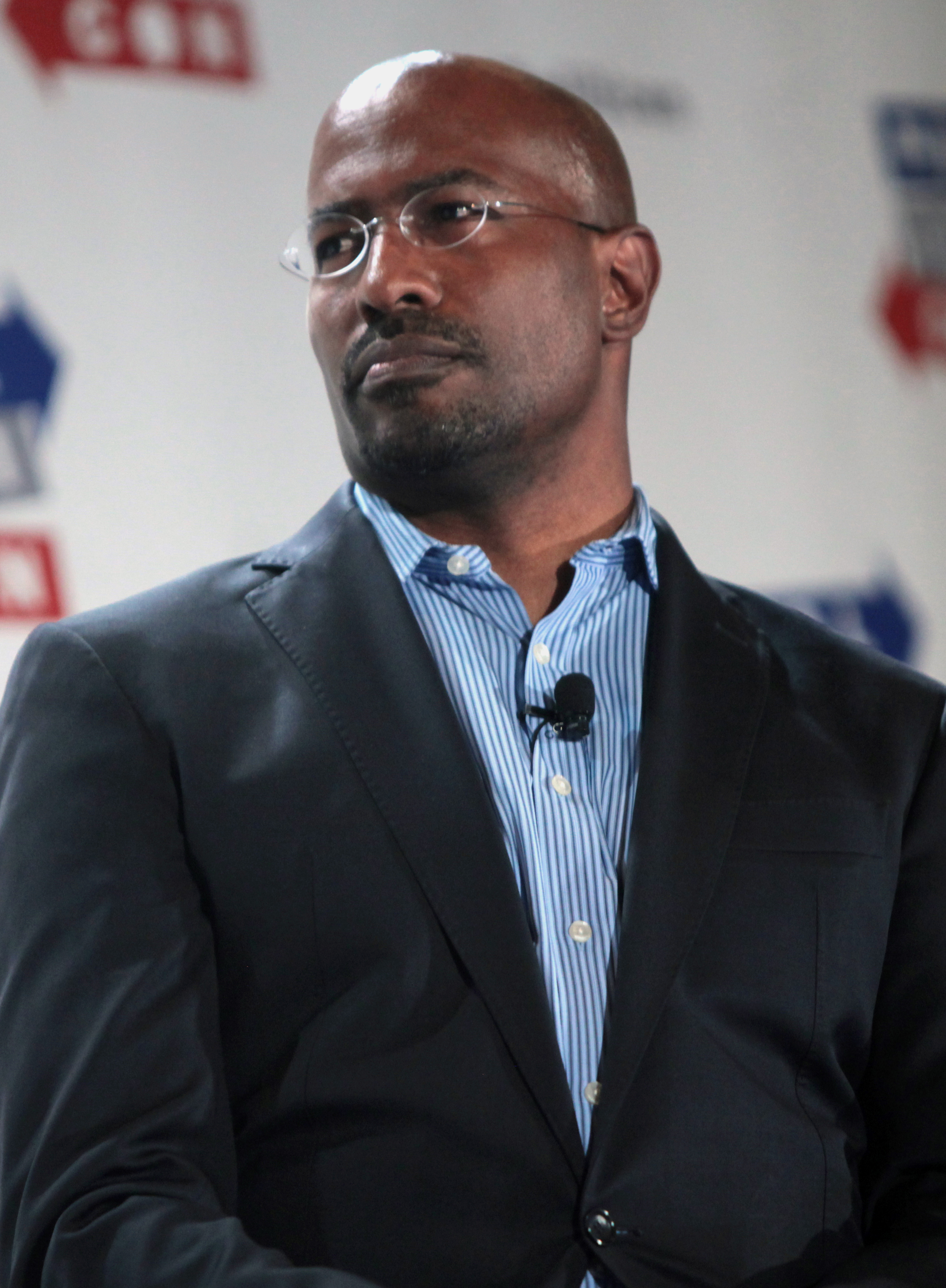 Van Jones speaking at Politicon in Pasadena, California.